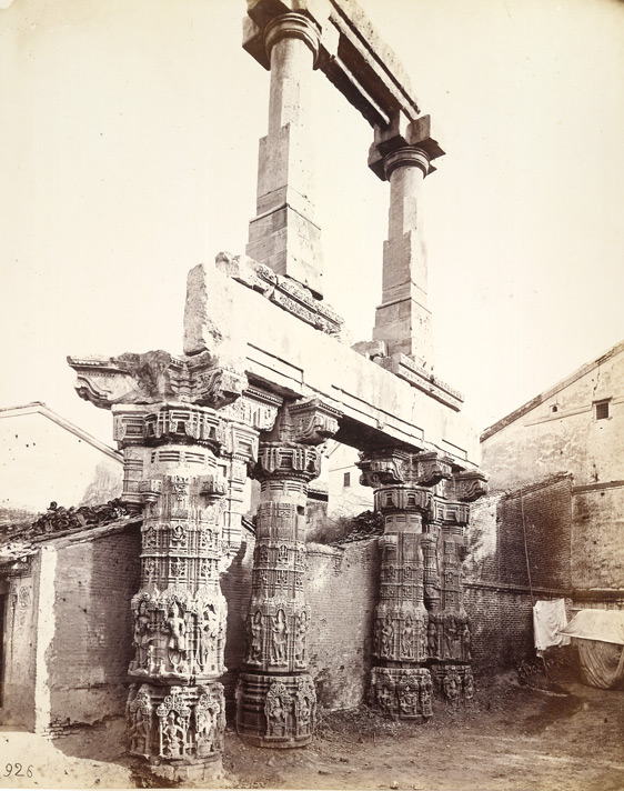 Photograph of four great pillars and architrave of the ruined Rudra Mahalaya Temple at Sidhpur in Gujarat, taken by Henry Cousens in the 1880s, from the Archaeological Survey of India Collections. The Rudra Mahalaya Temple dates from the 12th century and was constructed by the Solanki ruler Jayasimha (r.1094-1143). This multi-storeyed temple is devoted to the Shiva, a principle Hindu deity, and once consisted of eleven shrines and three gateways, although only some fragments remain. The ornamentation of the temple was exuberant as shown by the the elaborate and detailed carving of the pillars in this view.